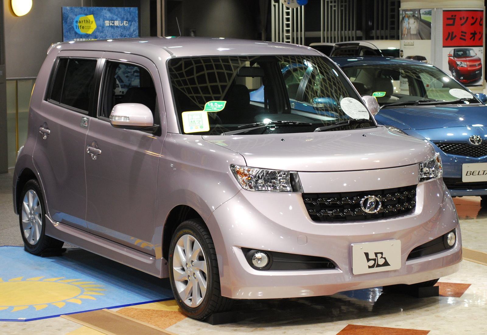 2nd generation Toyota bB (Aero Package) (2008/10 - )